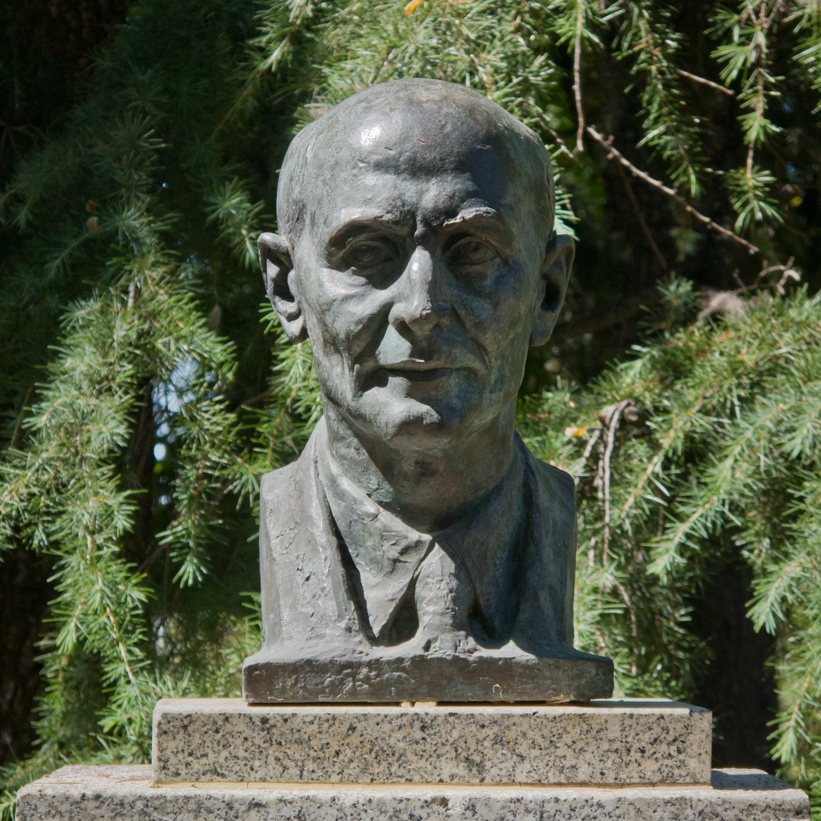 Bust of Paul Percy Harris, Park of the West, Madrid, Spain.